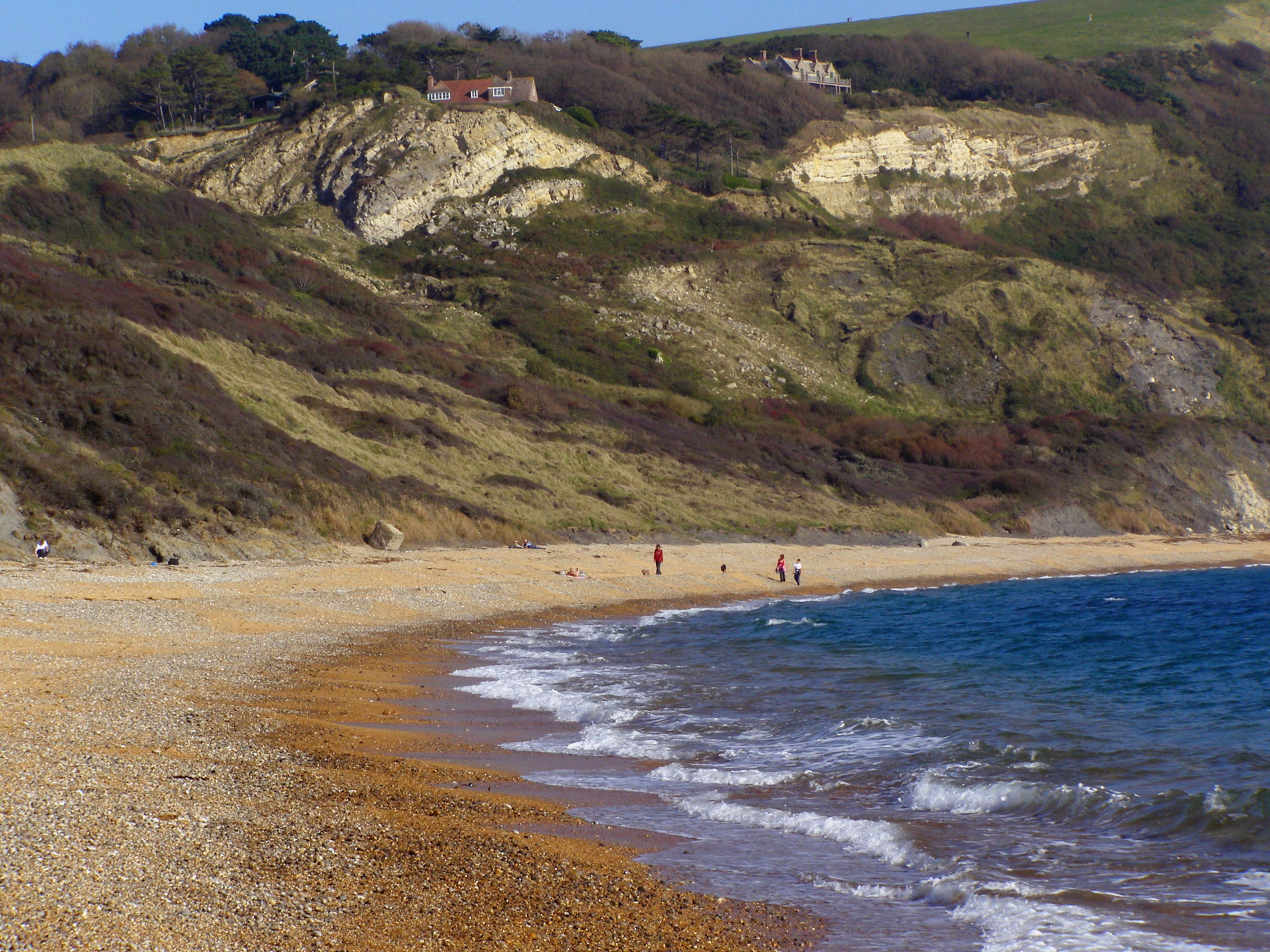 View east along the flint beach at Ringstead Bay, below Burning Cliff, Dorset, U.K.